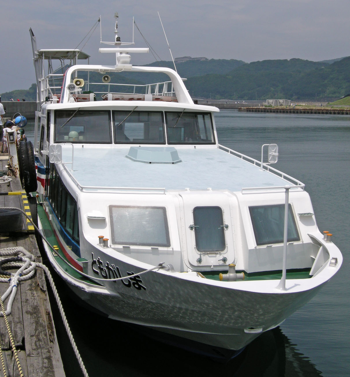 Tomogashima Liner, Wakayama city, Wakayama prefecture, Japan